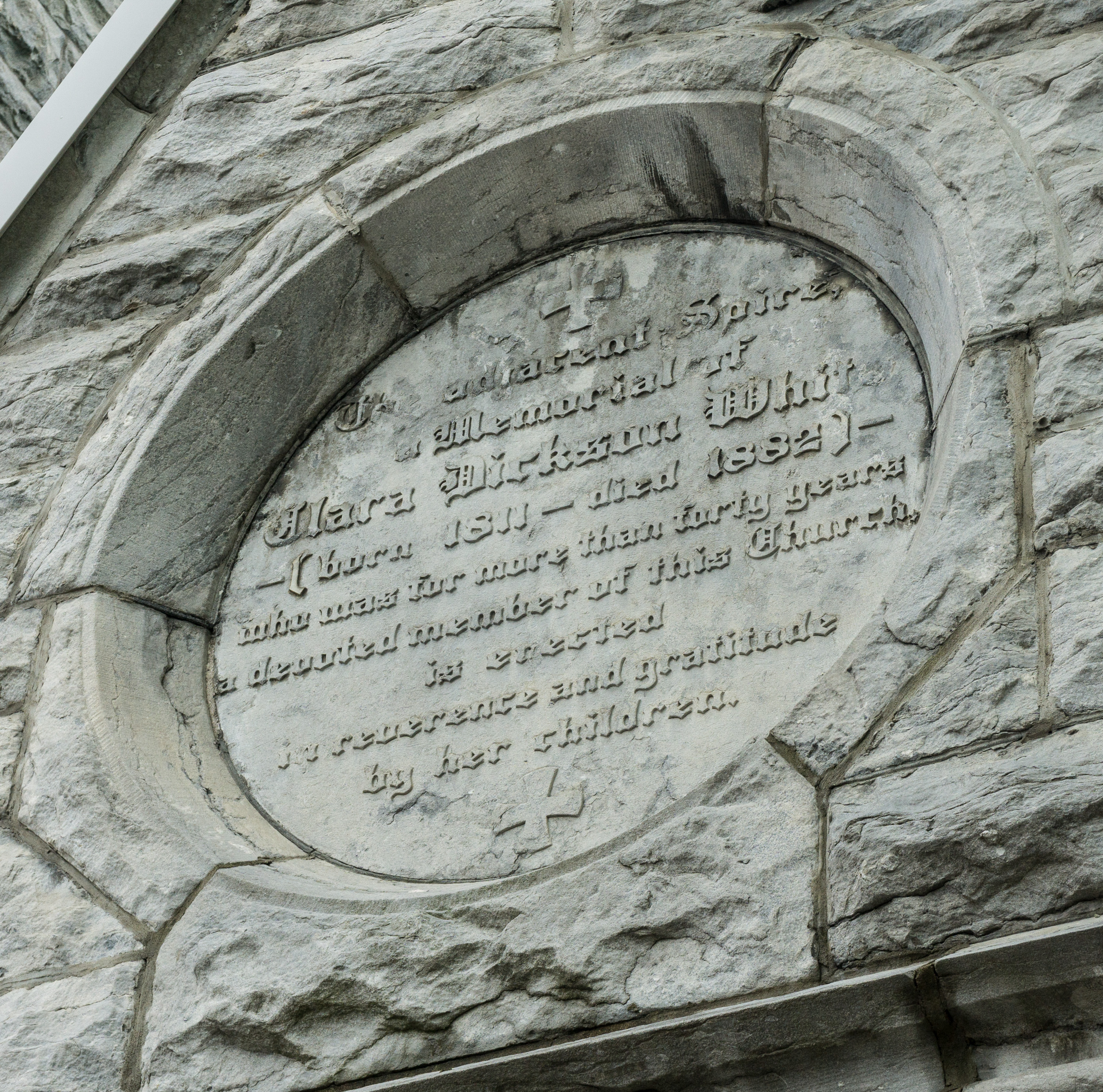 Saint Paul's Cathedral inscription, Syracuse, New York, reads: The adjacent spire in Memorial of Clara Dickson White (born 1811 - Died 1882) who was for more than forty years a devoted member of this Church, is erected in reverence and gratitude by her children. Clara Dickson White was mother of Andrew Dickson White, cofounder and first president of Cornell University.